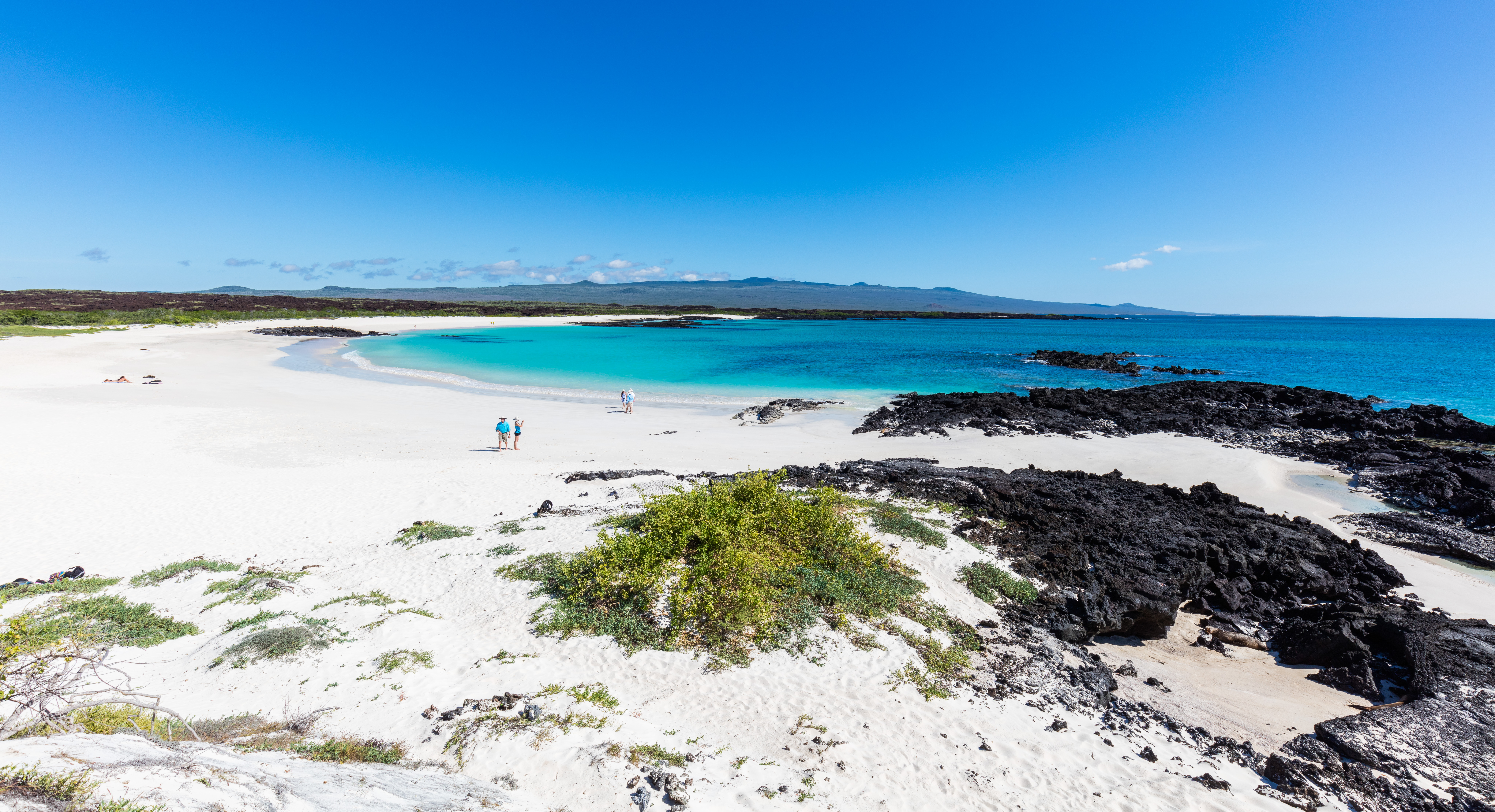 View of Cerro Brujo, San Cristobal Island, Galapagos Islands, Ecuador